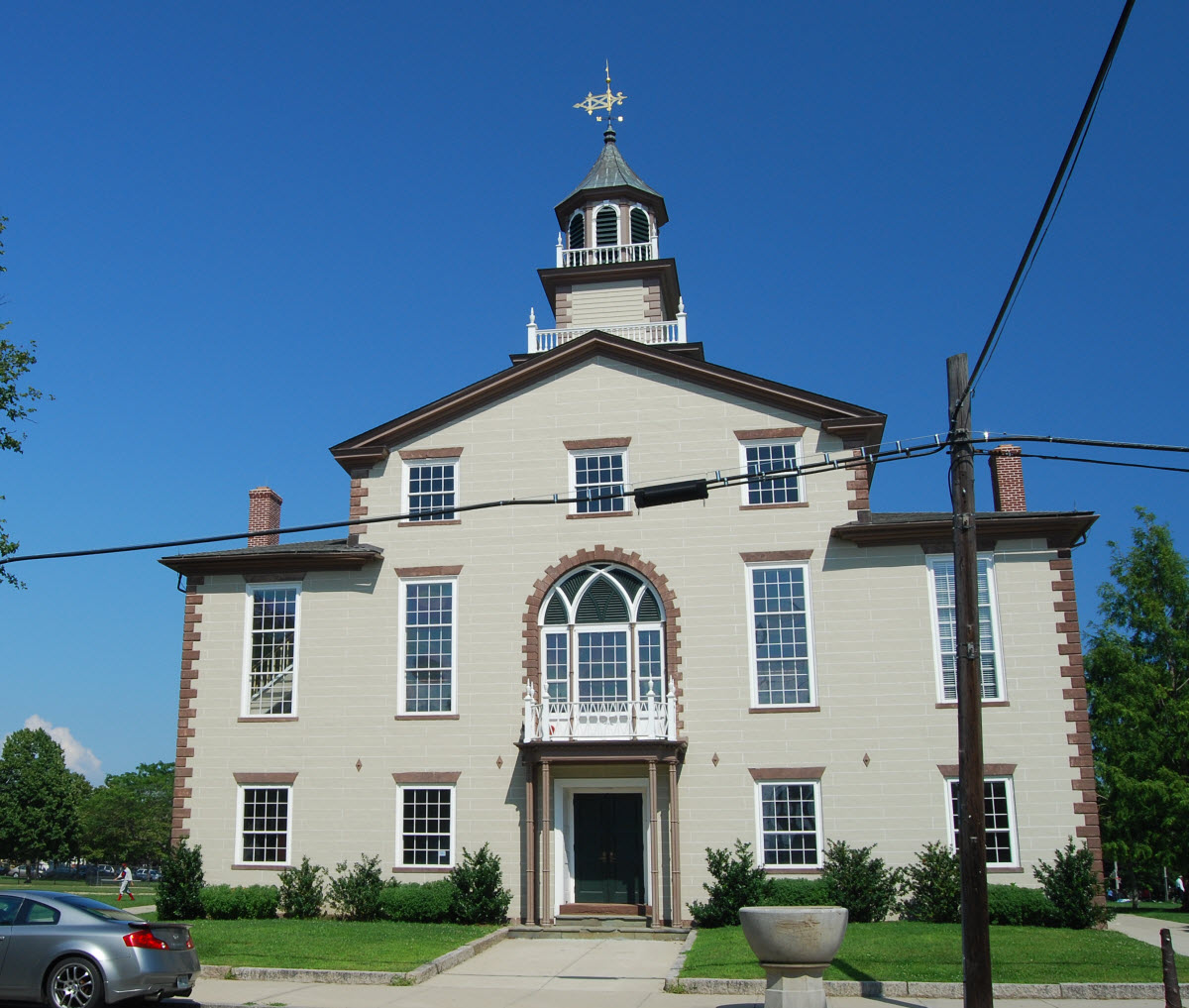 Old Courthouse, Bristol, Rhode Island